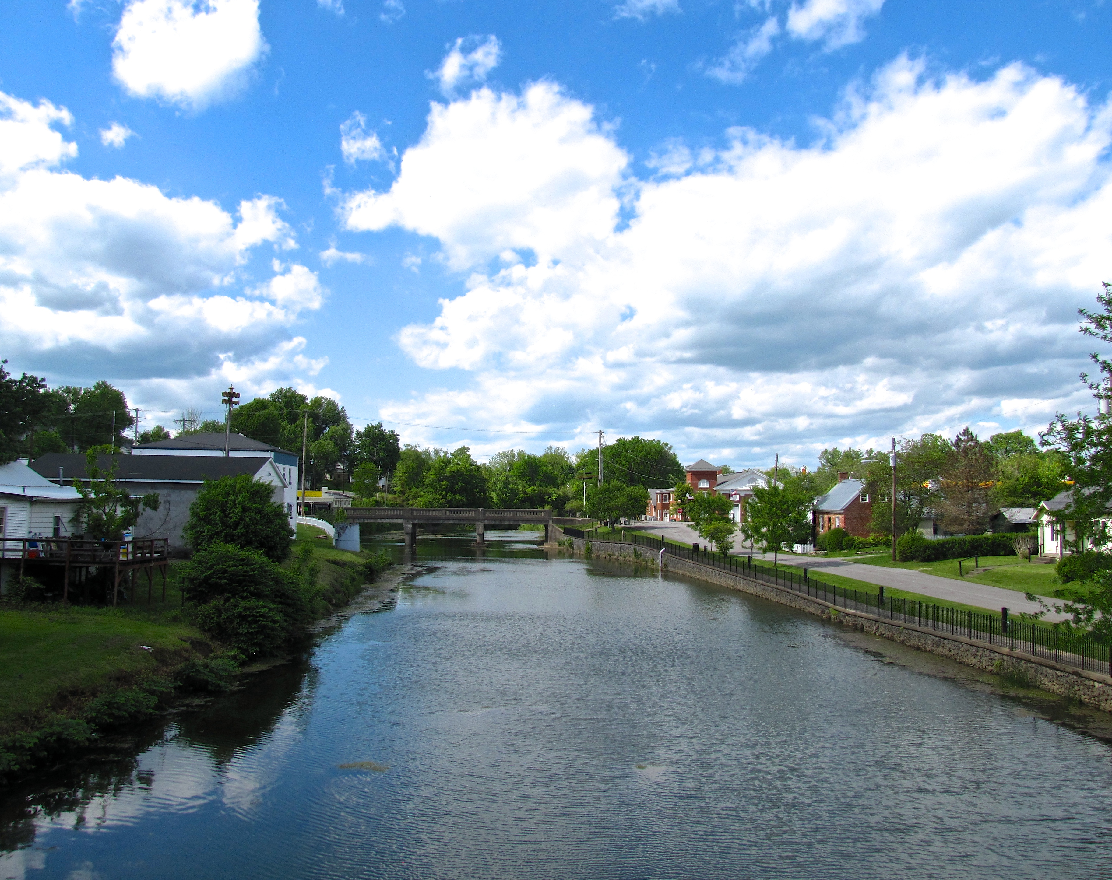 The Chaplin River in Perryville, Kentucky, United States, looking north from the pedestrian bridge near Merchants' Row.